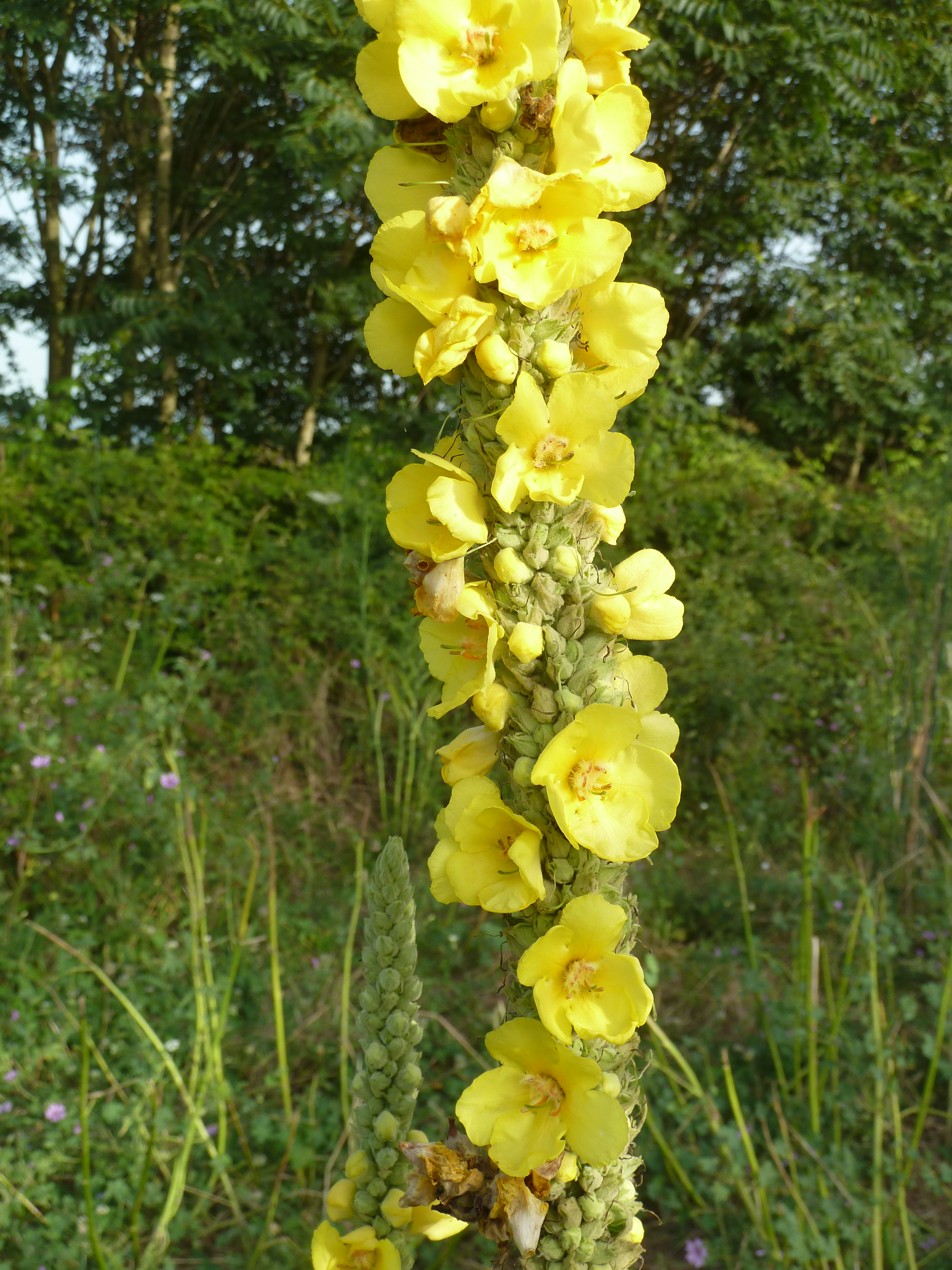 Flora. Parco Caffarella, Rome, Italy. July Verbascum thapsus